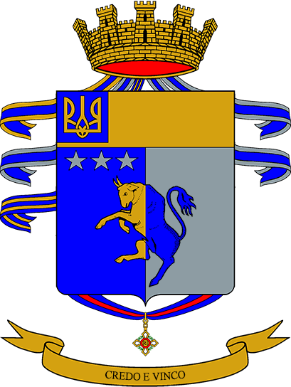 Coat of Arms of the 82° Infantry Regiment; Italian Army.